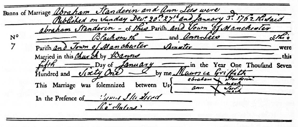 Banns of marriage of Abraham Standerin and Ann Lee.